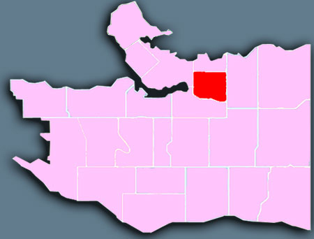 Strathcona neighbourhood of Vancouver.